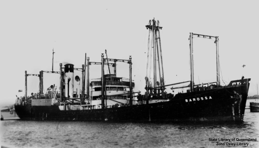 Adelaide Steamship Co's 4,239 GRT cargo steamship Barossa